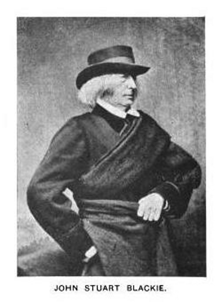 John Stuart Blackie (28 July 1809 – 2 March 1895) was a Scottish scholar and man of letters.